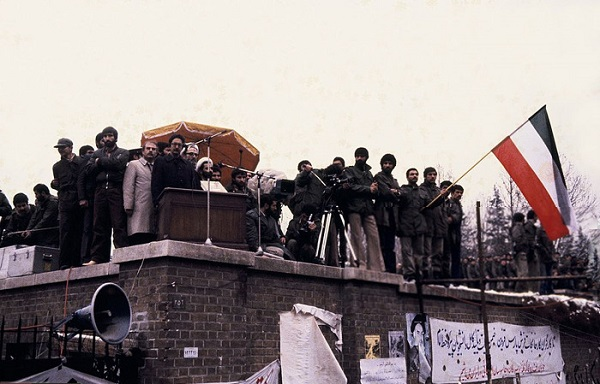 Abolhassan Banisadr's speech with the early flag of Iran, after 1979 revolution